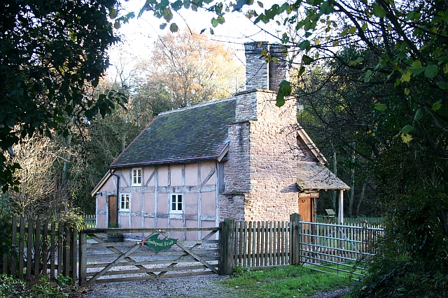 Hollywall Croft Looking very empty; a charming timber-framed cottage with impressive chimneys. Situated on worryingly low ground close to the Humber Brook.